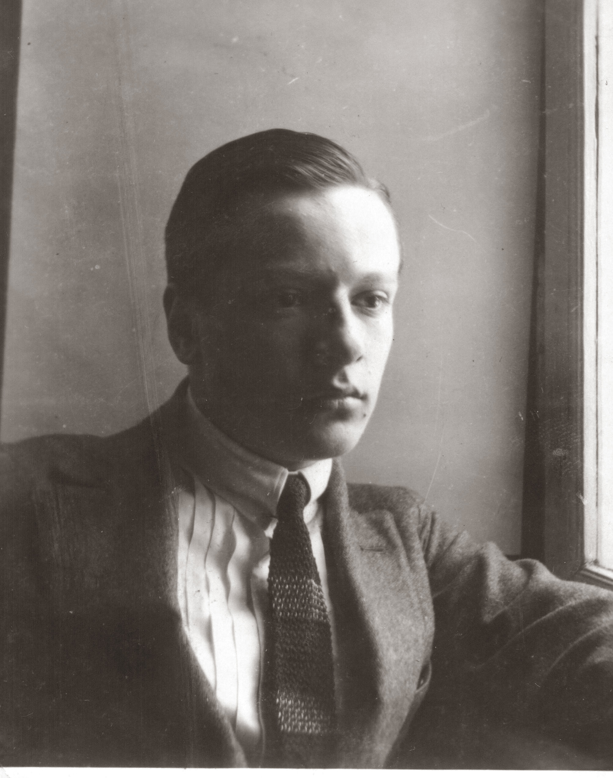 Tadeusz Semadeni (1902-1944), Polish judge